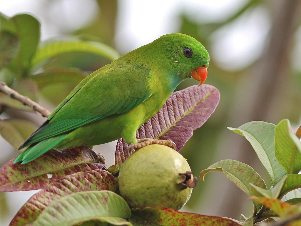 A male perched on a ripe guava. The males can be distinguished by their light blue throat patch as seen here. There were many of these parrots about. This particular bird was just about 15 feet from me outside the window. There were Bulbuls and Barbets also which lead to a bit of jostling for the few fruits remaining. The Barbets with their stout bodies and larger size were the winners taking the best fruits. These parrots, though the smallest in size, were hardy in nature and so got their share of the spoils. Their good grip making it hard for them to be dislodged. The delicate Bulbuls were the clear losers but made up for it by looking for insects and worms amongst the leaves.